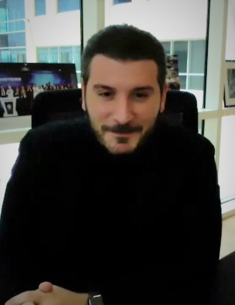 Ralph Debbas, CEO of W Motors discussion Ralph Debbas is the founder and CEO of W Motors, the first manufacturer of high-performance cars to be based in the Middle East. After the listing on the Nasdaq Dubai and announcement of a new manufacturing facility in the UAE. Ralph discusses the innovation sweeping through the automotive sector.